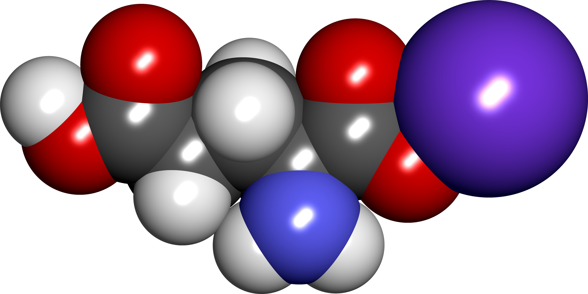 Space filling model of monosodium glutamate.